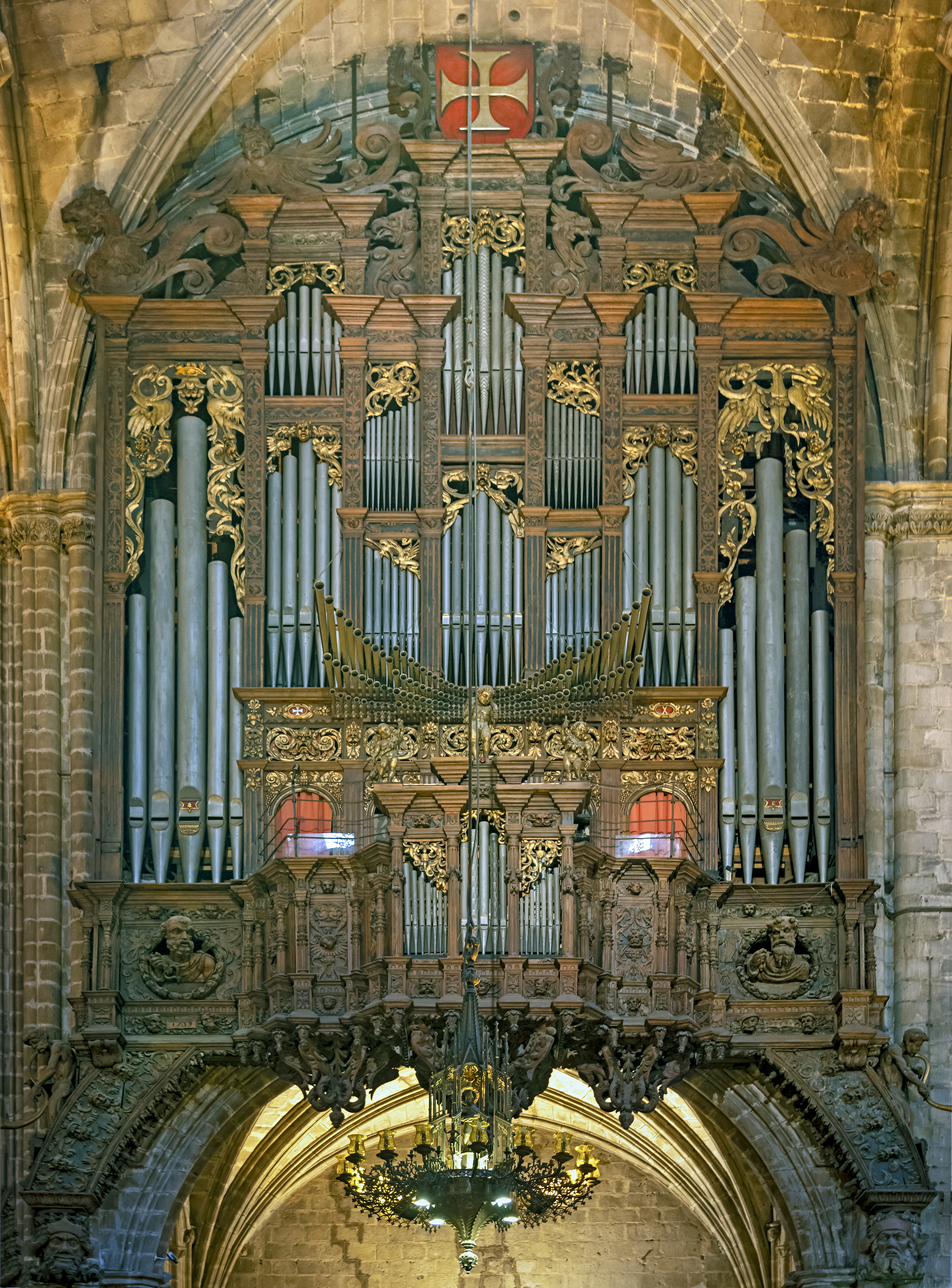 The Cathedral of the Holy Cross and Saint Eulalia in Barcelona. The tribune organ (1538-1540).